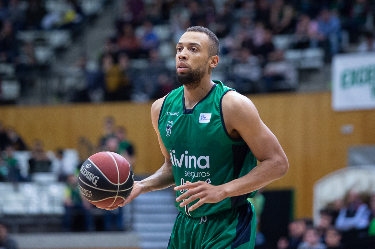 Demitrius Conger of Joventut Badalona